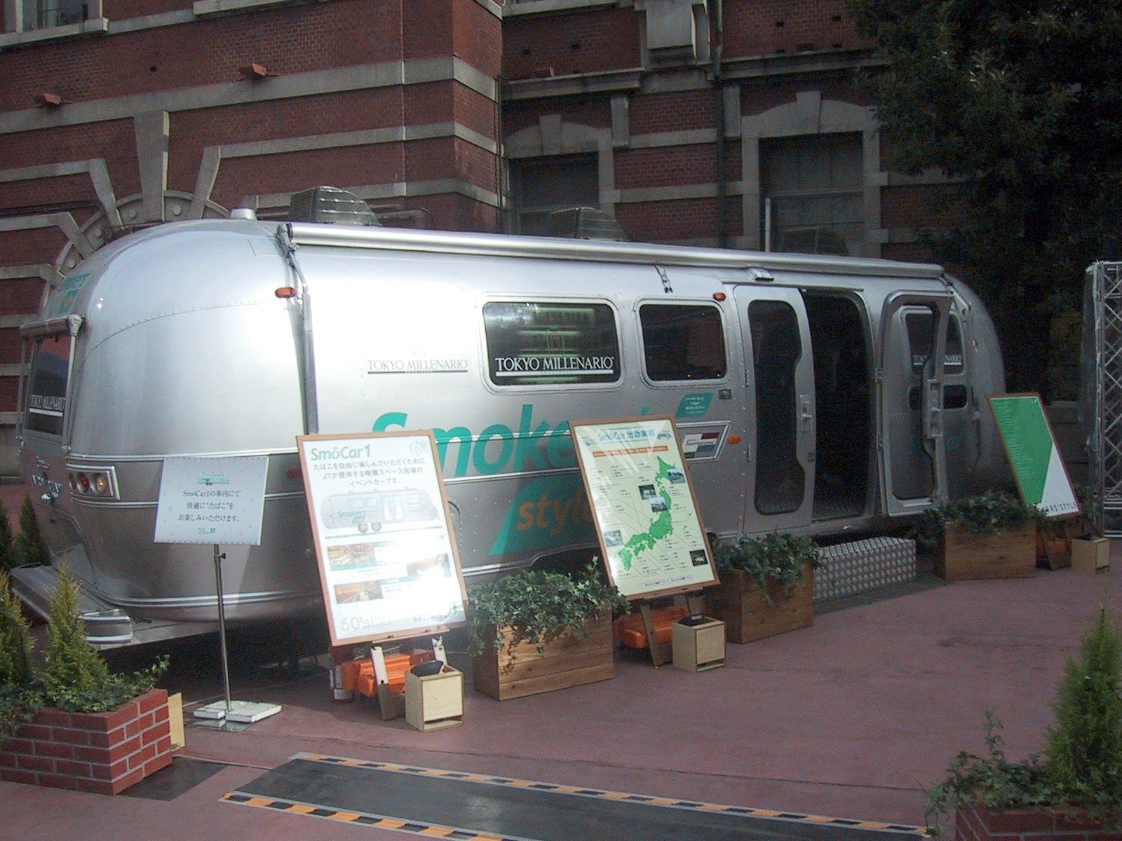 Smoking is prohibited on some streets in Tokyo. Hence, special places for smokers are established. This is one wagon for smoking in front of Tokyo Station, Smokers Style